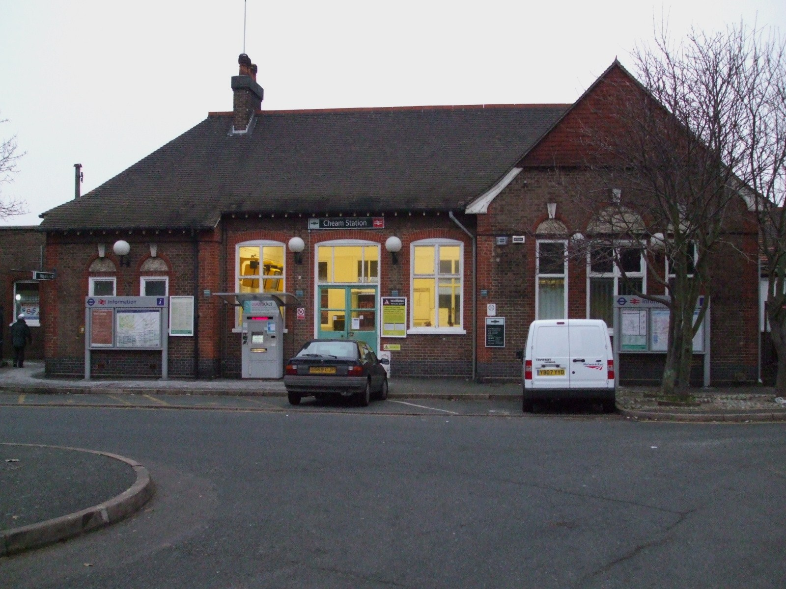 Cheam station main building, on the westbound side